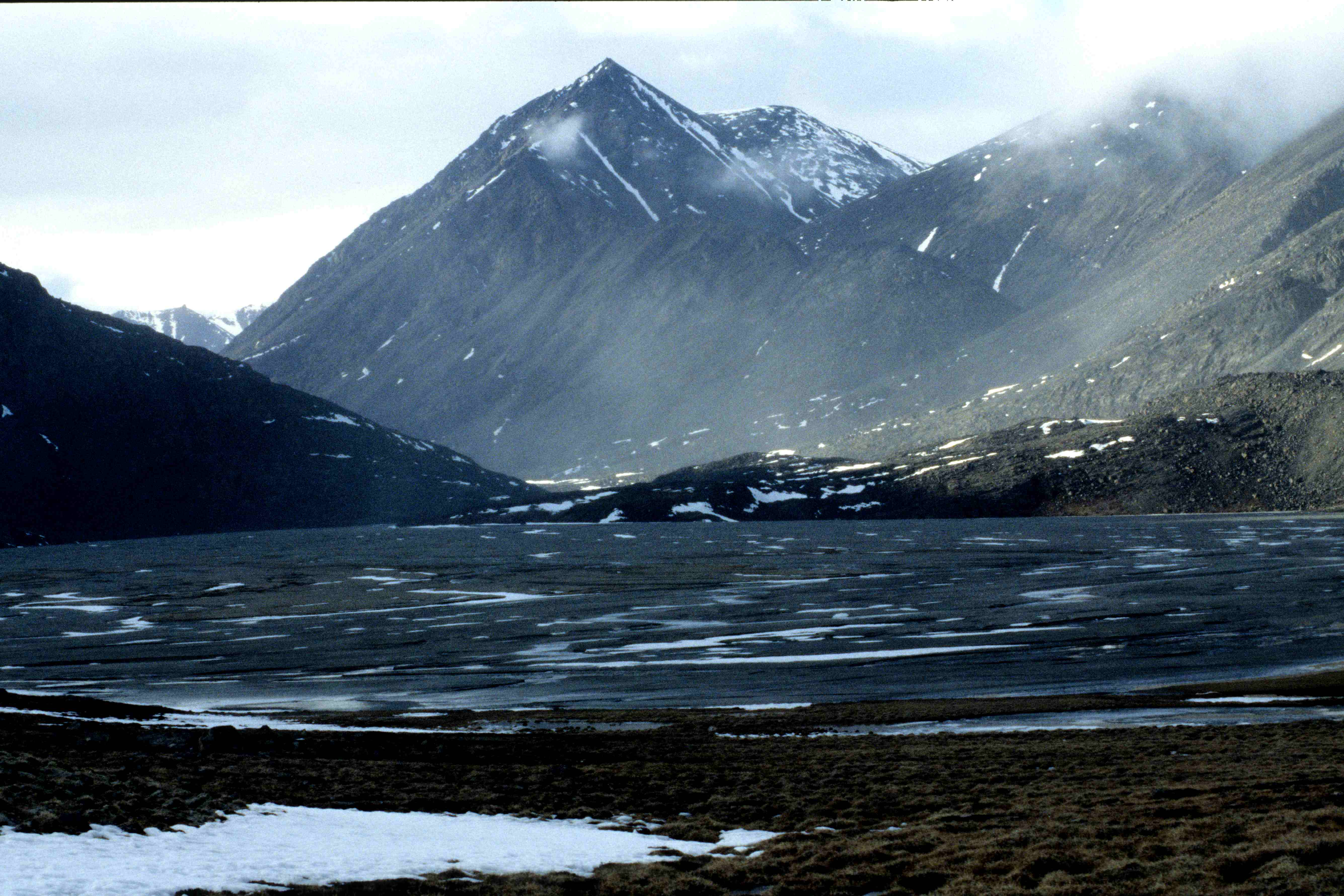 Ground moraine of a former glacier on Bylot Island (Sirmilik National Park, Canada)